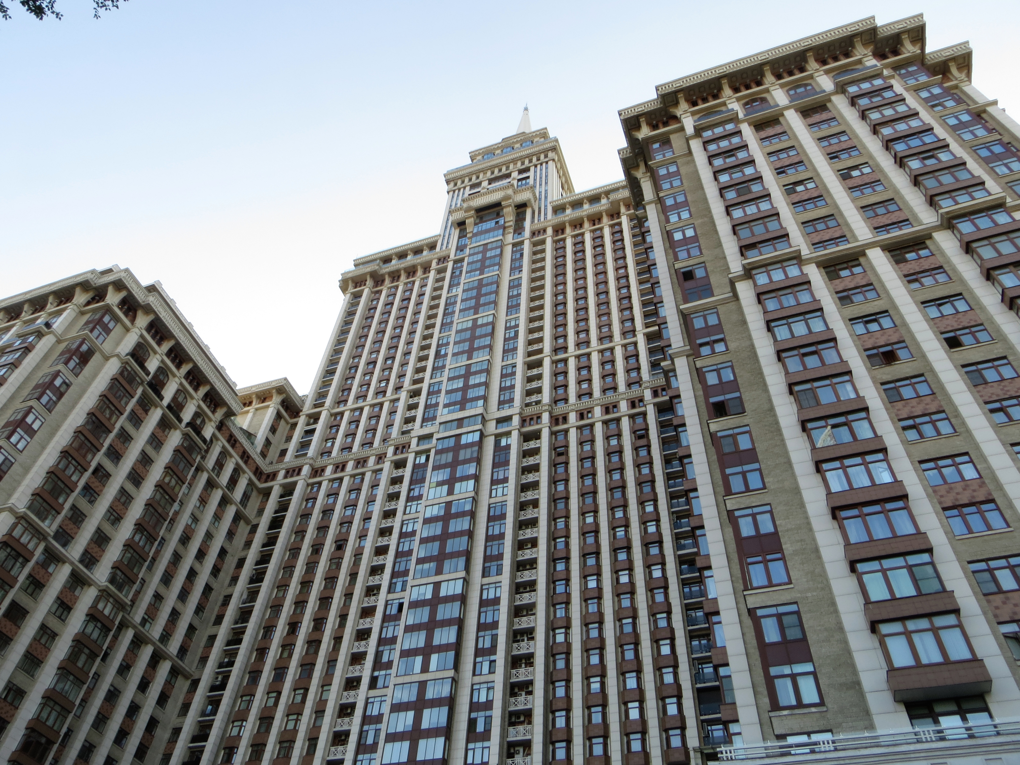 The central section of Triumph Palace.